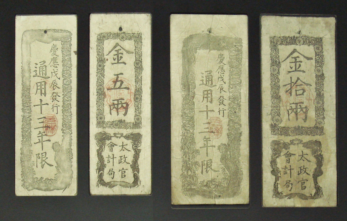 Daijokansatsu_notes_1868_Japan